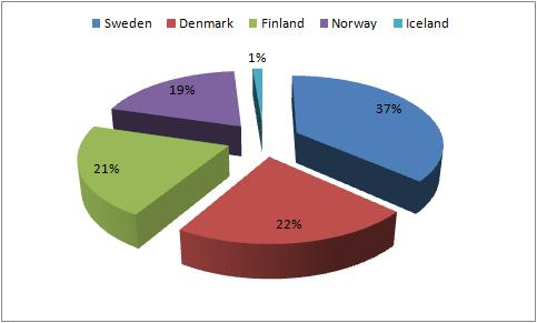 Data taken from English Wikipedia. Different sources have been used for each country which means that the diagram is just approximative.